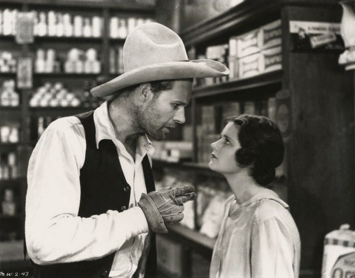 Lane Chandler & Nancy Shubert in Sagebrush Trail - publicity still (cropped : see source)